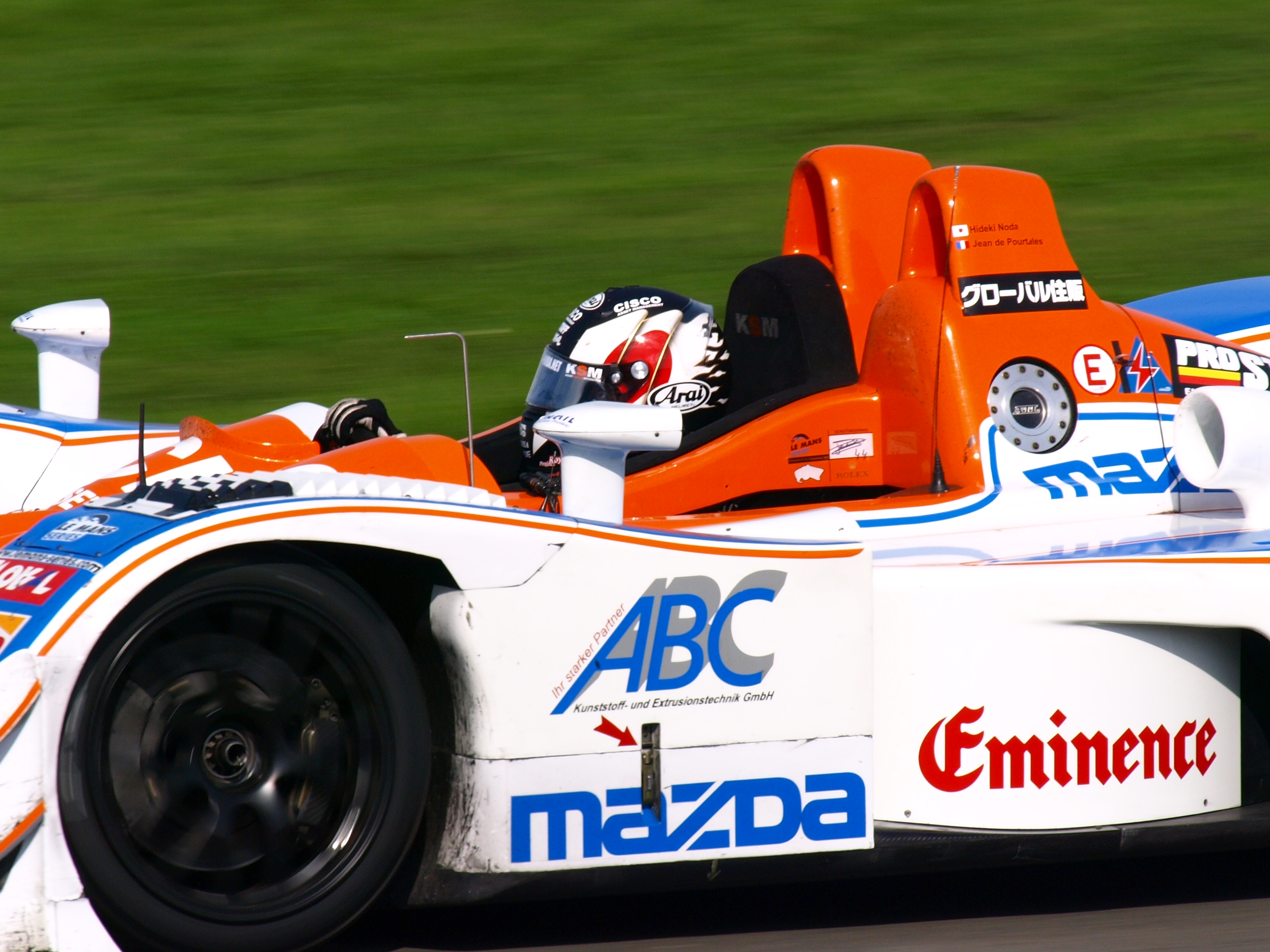 Hideki Noda driving the Kruse Schiller Motorsports Lola B05/40-Mazda at the 2008 1000km of Silverstone.